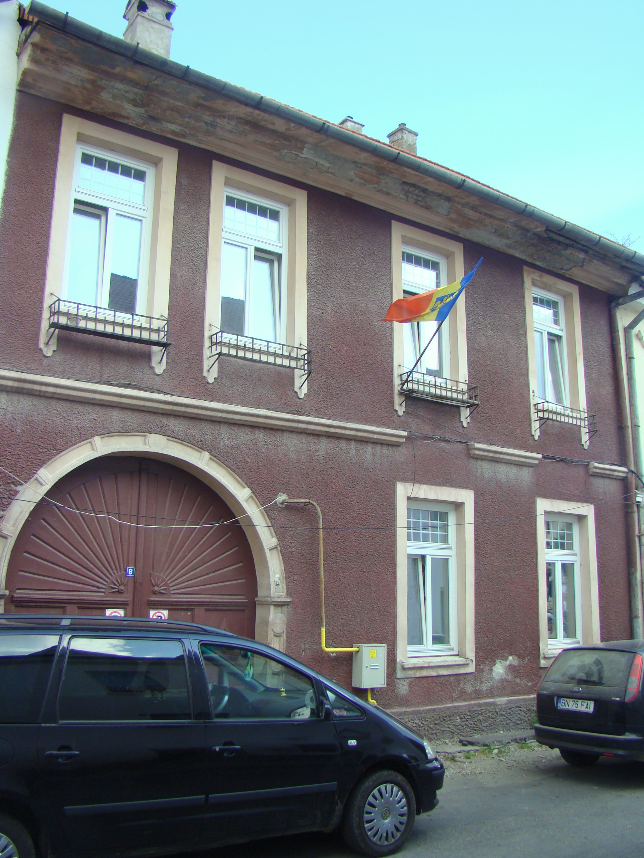 House, historic monument, in Bistrița, Piața Mică 8